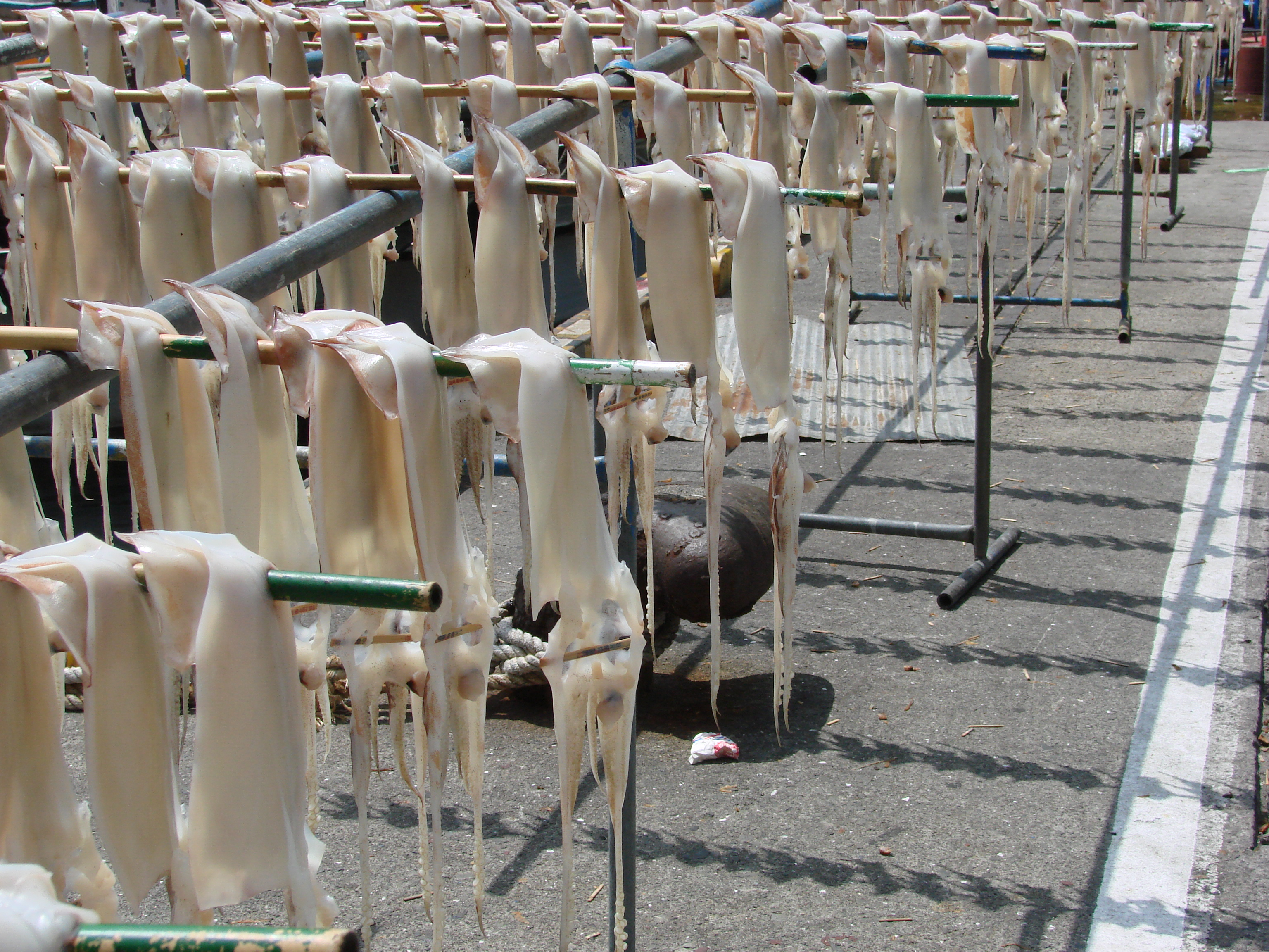 Squid drying on Ulleungdo